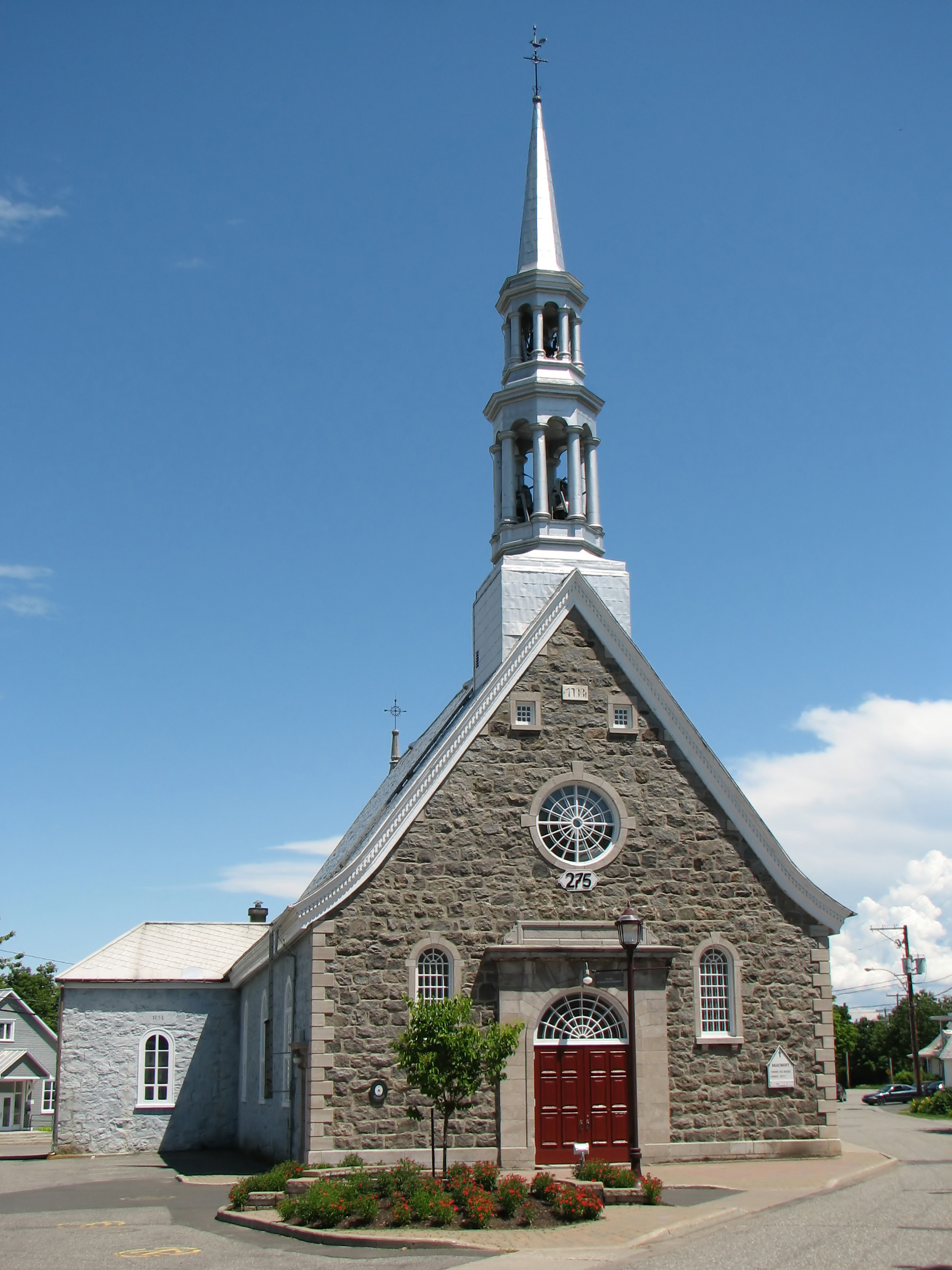 Saint Etienne Church (1733), Beaumont, province of Quebec, Canada